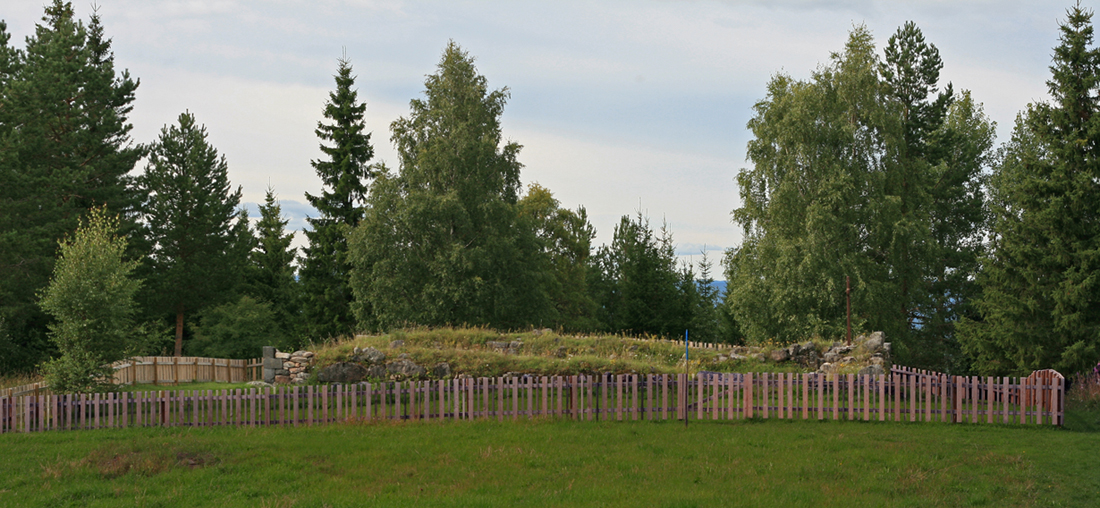 Rokoberget medieval church ruin, Løten, Norway.